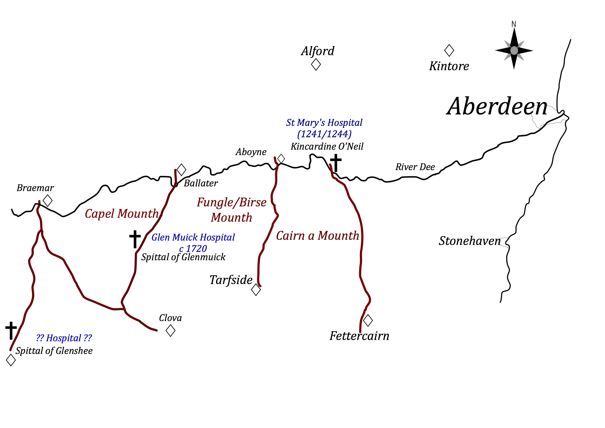 Drover Roads crossing the River Dee.